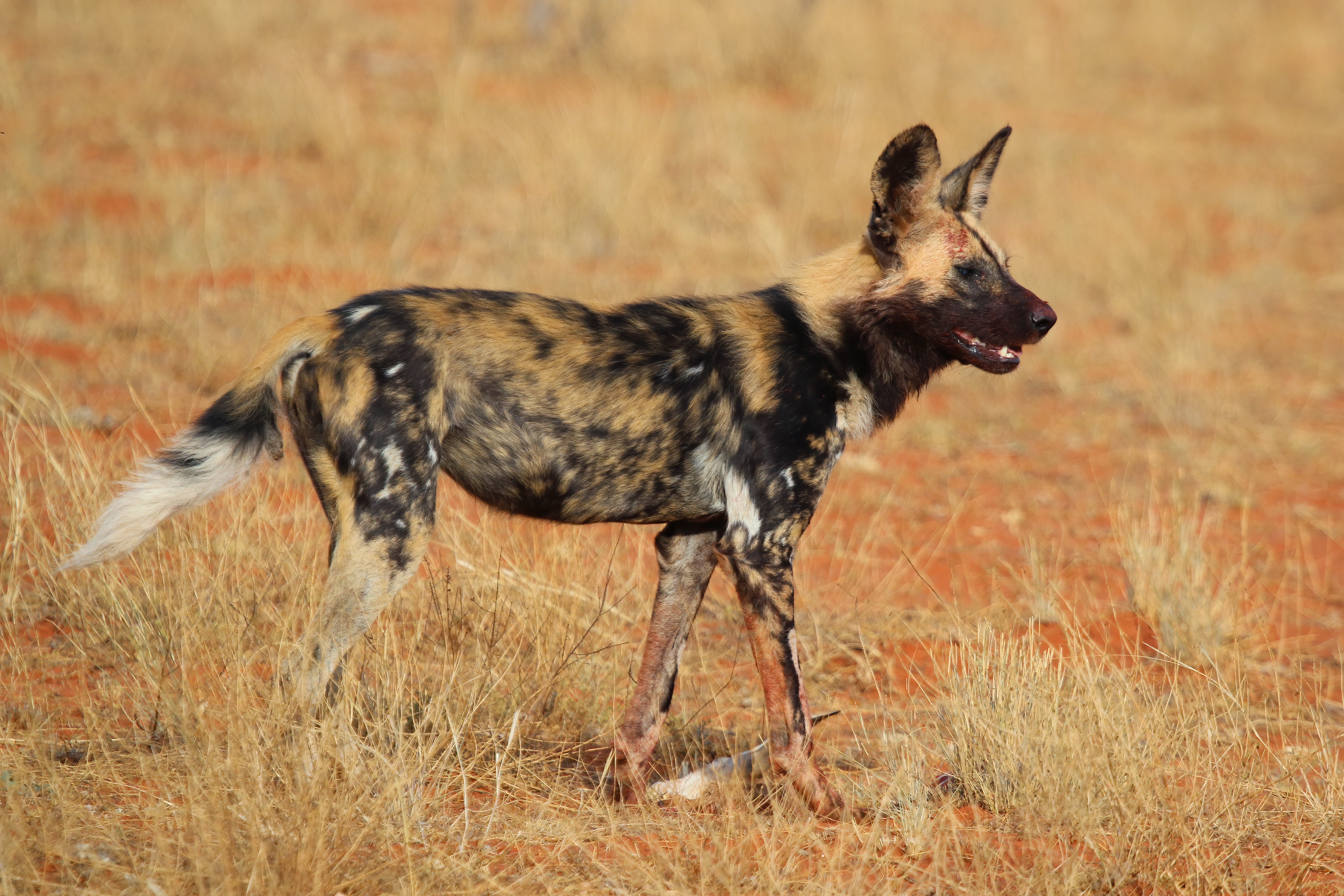 African wild dog (Lycaon pictus pictus), Tswalu Kalahari Reserve, South Africa